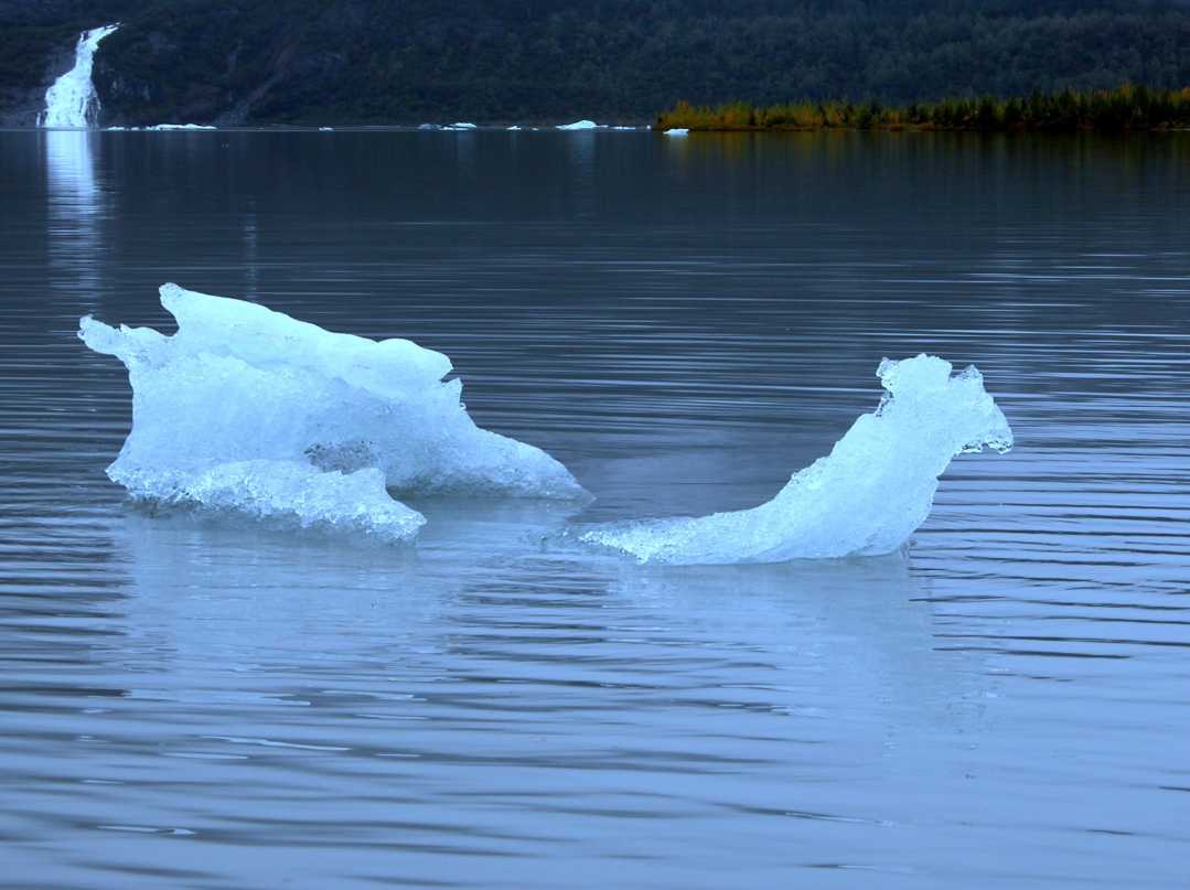 Mendenhall Ice Dragon - Glacieral ice on Mendenhall Lake from Mendenhall Glacier.